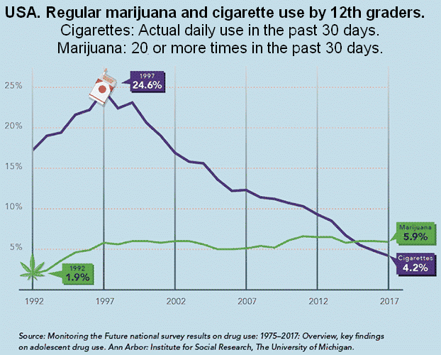 Regular marijuana and cigarette use by 12th graders in the USA in the last 30 days. By year. Green line is for marijuana. Dark blue/purple line is for cigarettes. Stats source is linked from charts index for The Monitoring the Future (MTF) study, also known as the National High School Senior Survey. From footnotes: "Daily use is defined as use on 20 or more occasions in the past 30 days except for cigarettes and smokeless tobacco, for which actual daily use is measured." Smokeless tobacco is not measured in this chart. This particular footnote is for more than one chart. Miech, R. A., Schulenberg, J. E., Johnston, L. D., Bachman, J. G., O'Malley, P. M., & Patrick, M. E. (December 17, 2018). "National Adolescent Drug Trends in 2018." Monitoring the Future: Ann Arbor, MI.